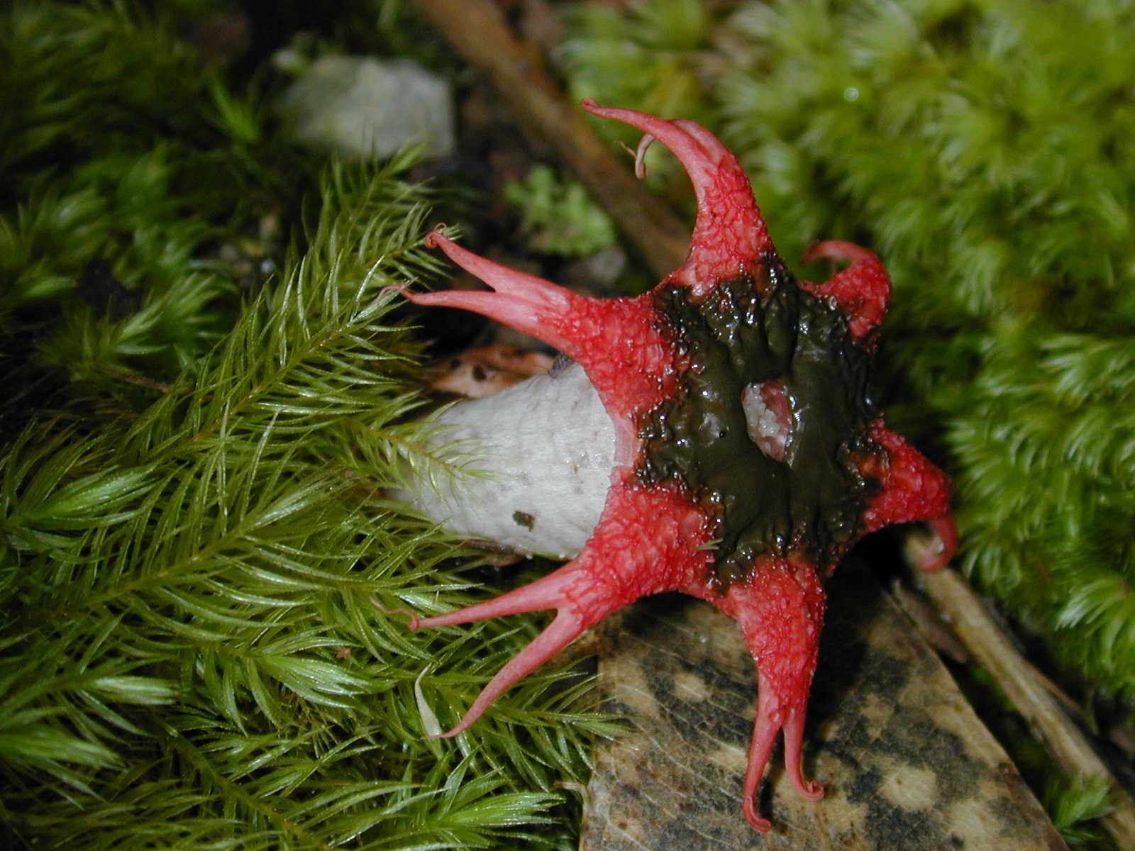 Eucalyptus sp. (with Aseroe rubra). Location: Maui, Wahinepee